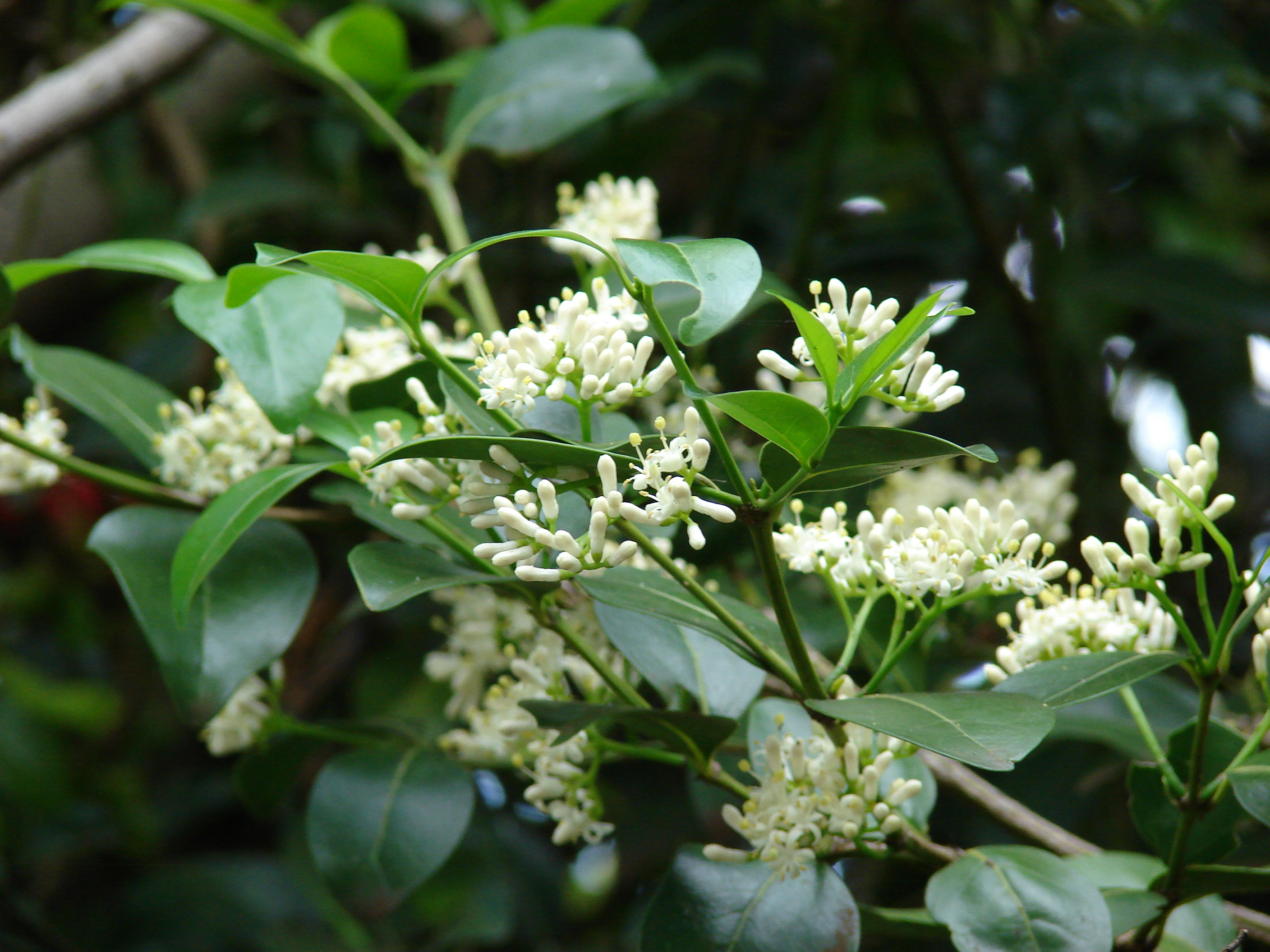 Psydrax odorata (flowers). Location: Maui, Makawao